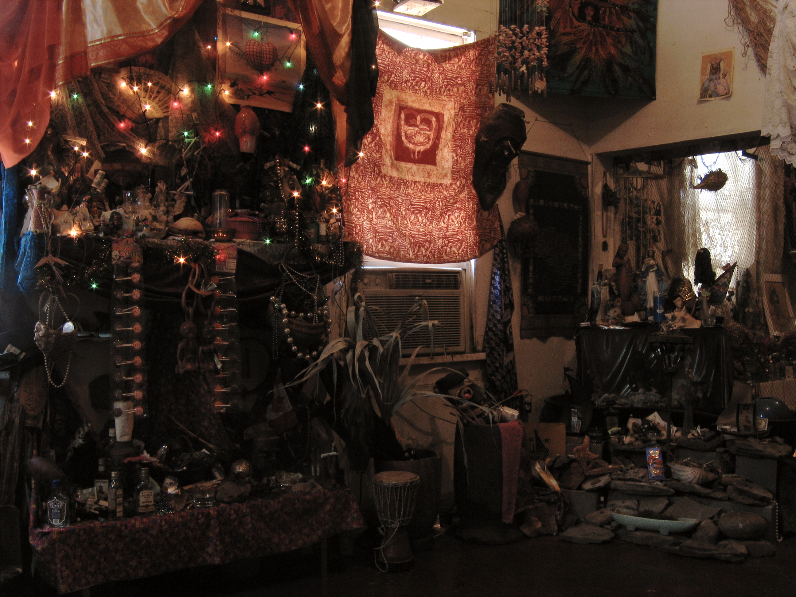 Voodoo Spirtual Temple, New Orleans